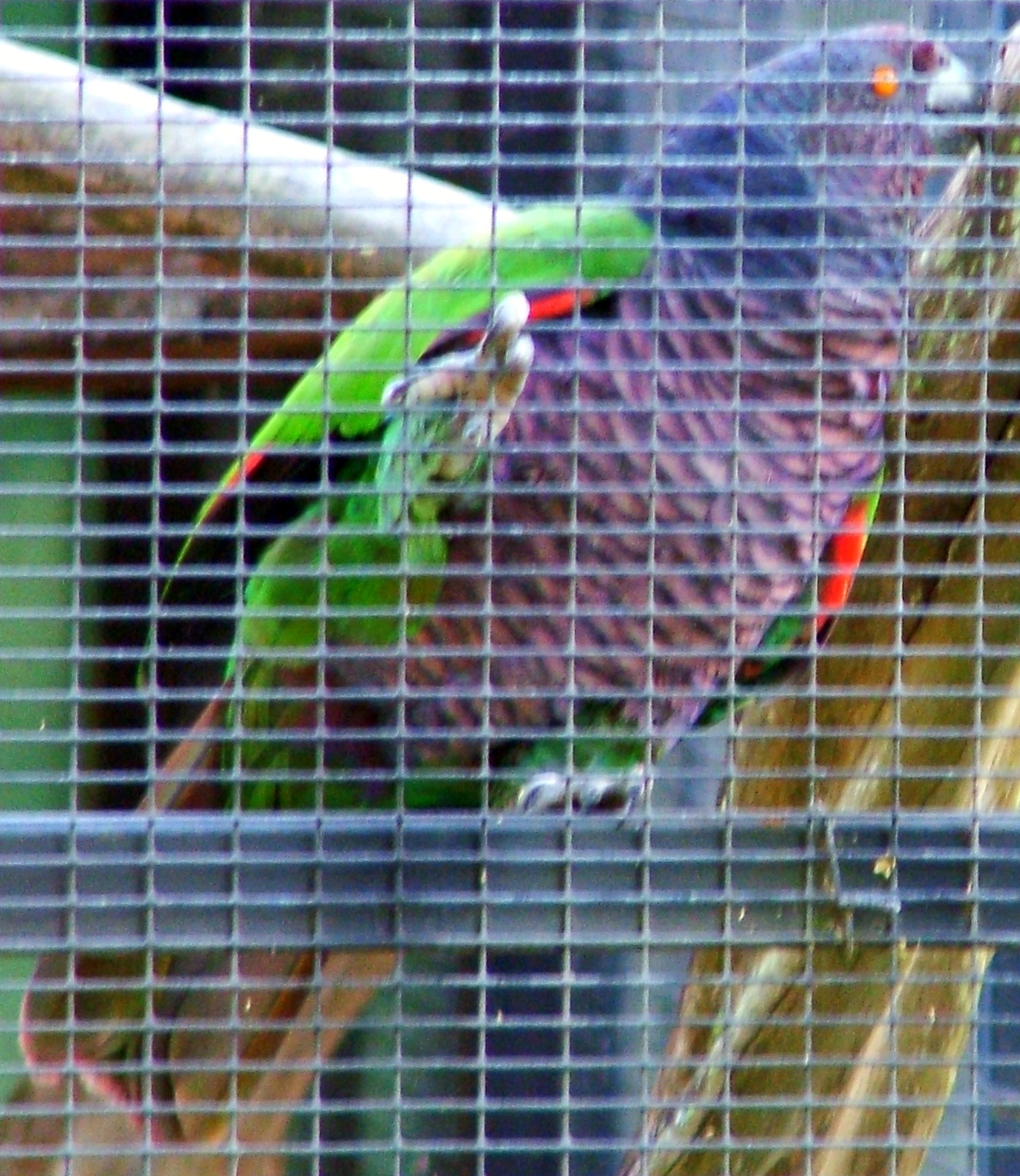 Imperial Amazon (also known as the Imperial Parrot and Sisserou Parrot) at the Parrot Conservation and Research Centre Botanical Gardens, Roseau, Dominica.